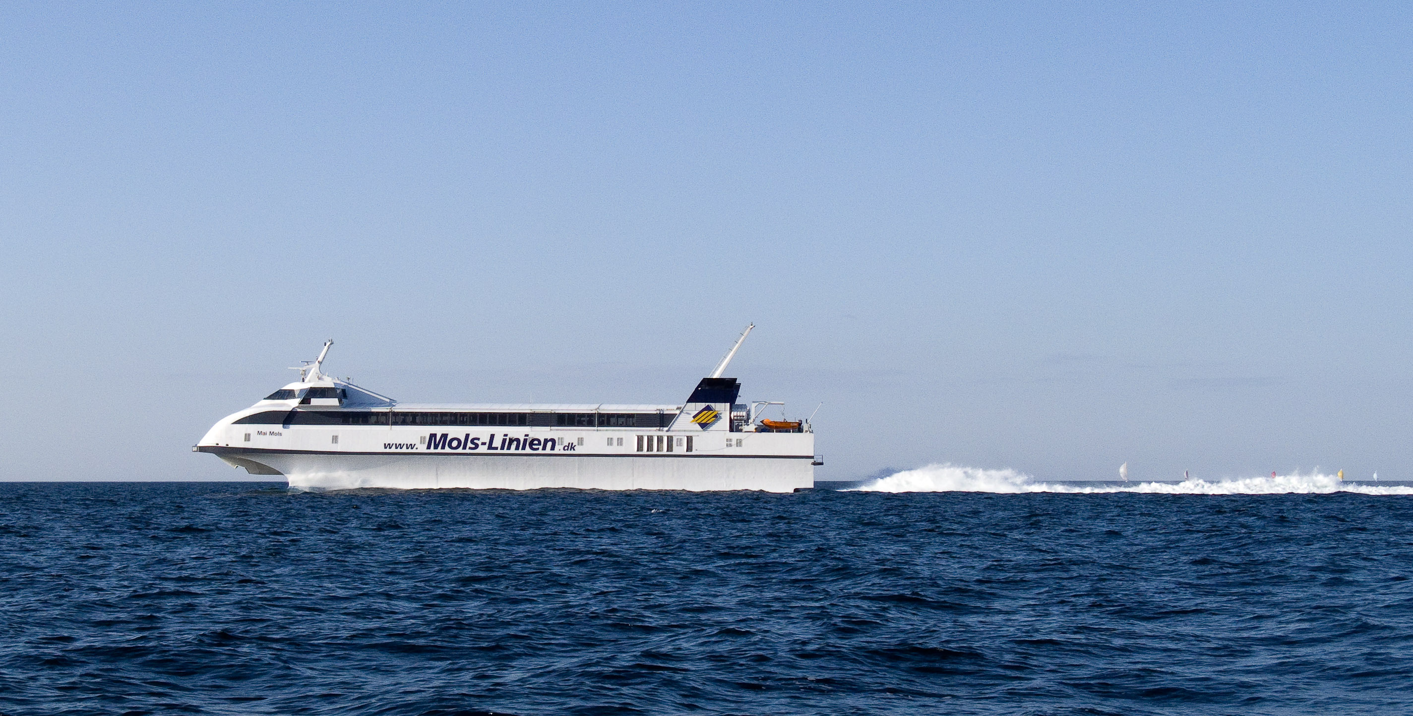 The "Mai Mols" catamaran ferry operated by Mols-Linien.